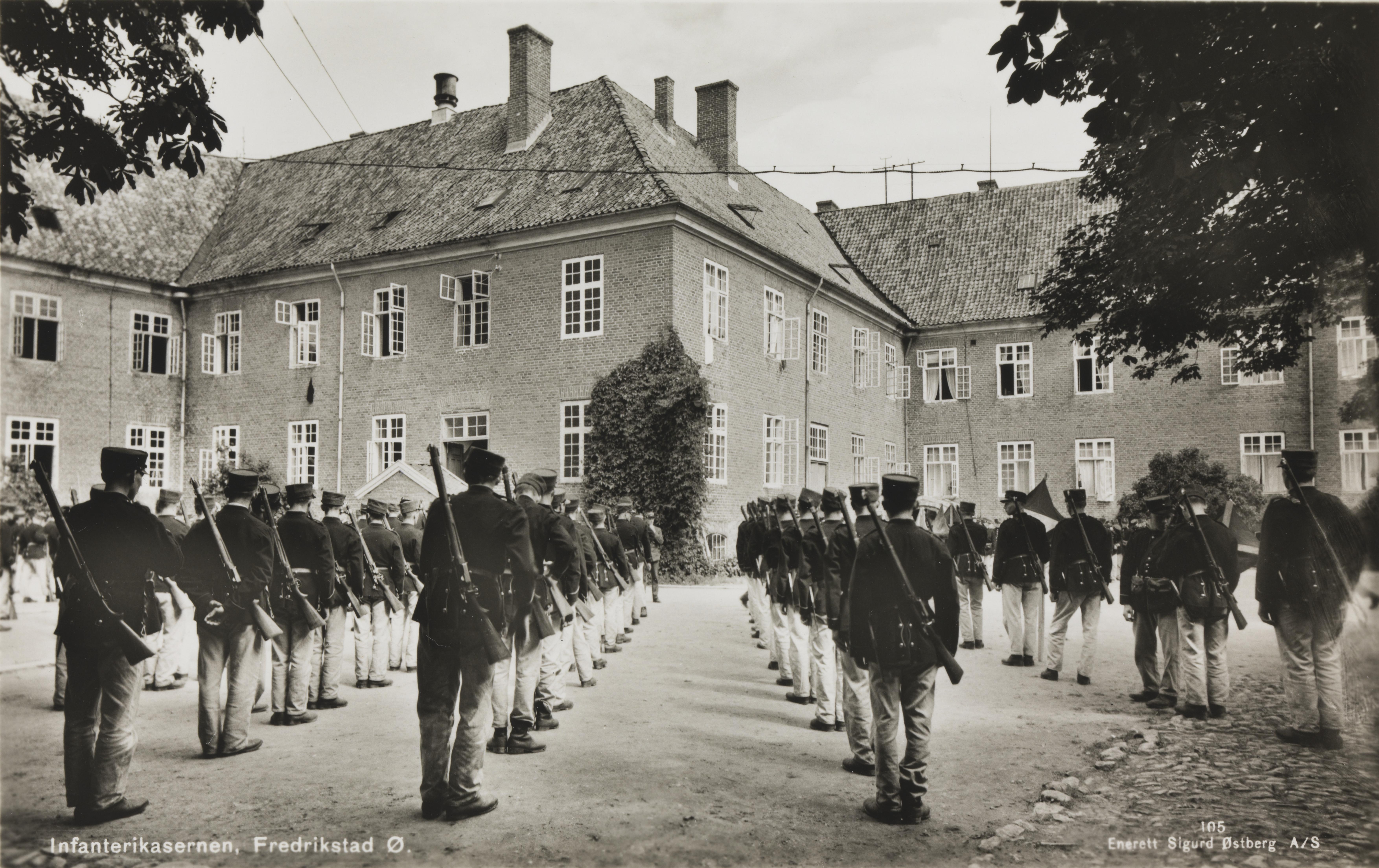 Infanterikasernen, building in the old part of Fredrikstad, Norway. Completed in 1787, architect Hans Christopher Gedde. Postcard. From the National Library of Norway.